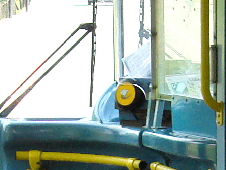 The interior of a bus on London Buses route 249